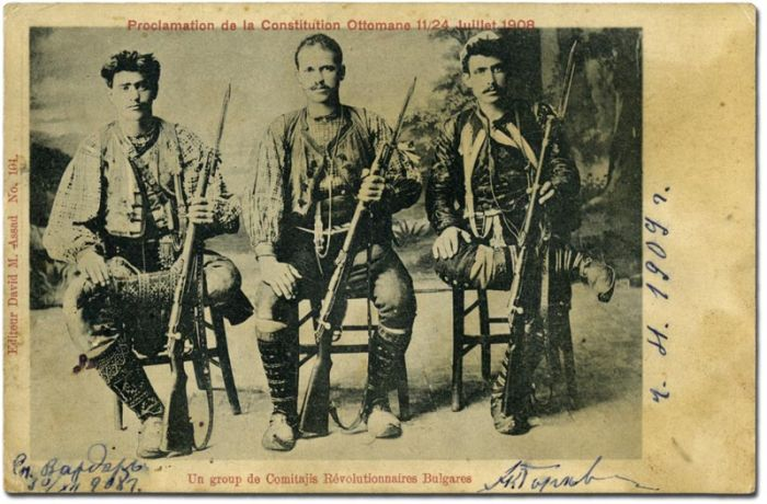 portrait of 3 members of Apostol voivoda's cheta